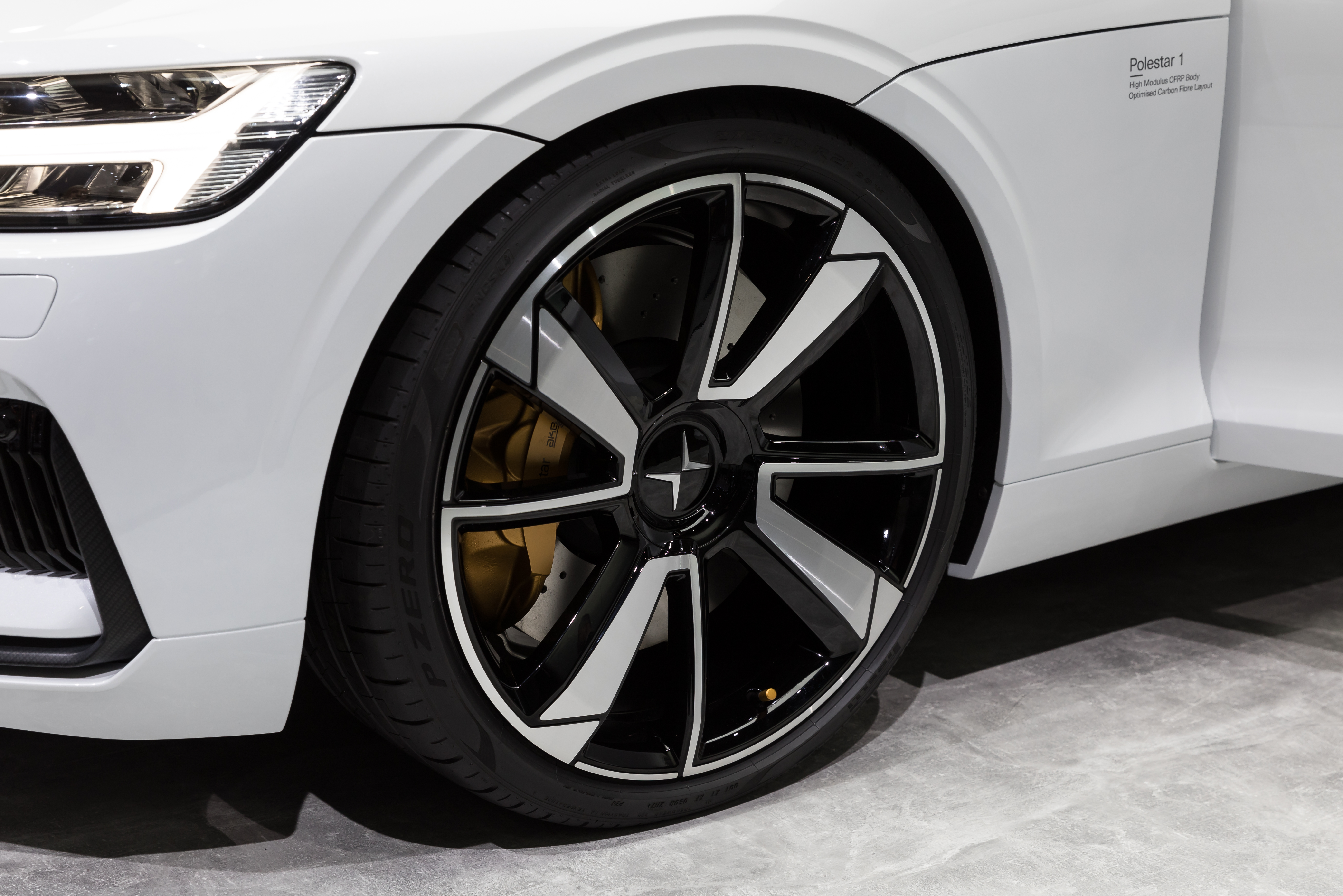 Front wheel of Polestar 1 at Geneva International Motor Show 2018